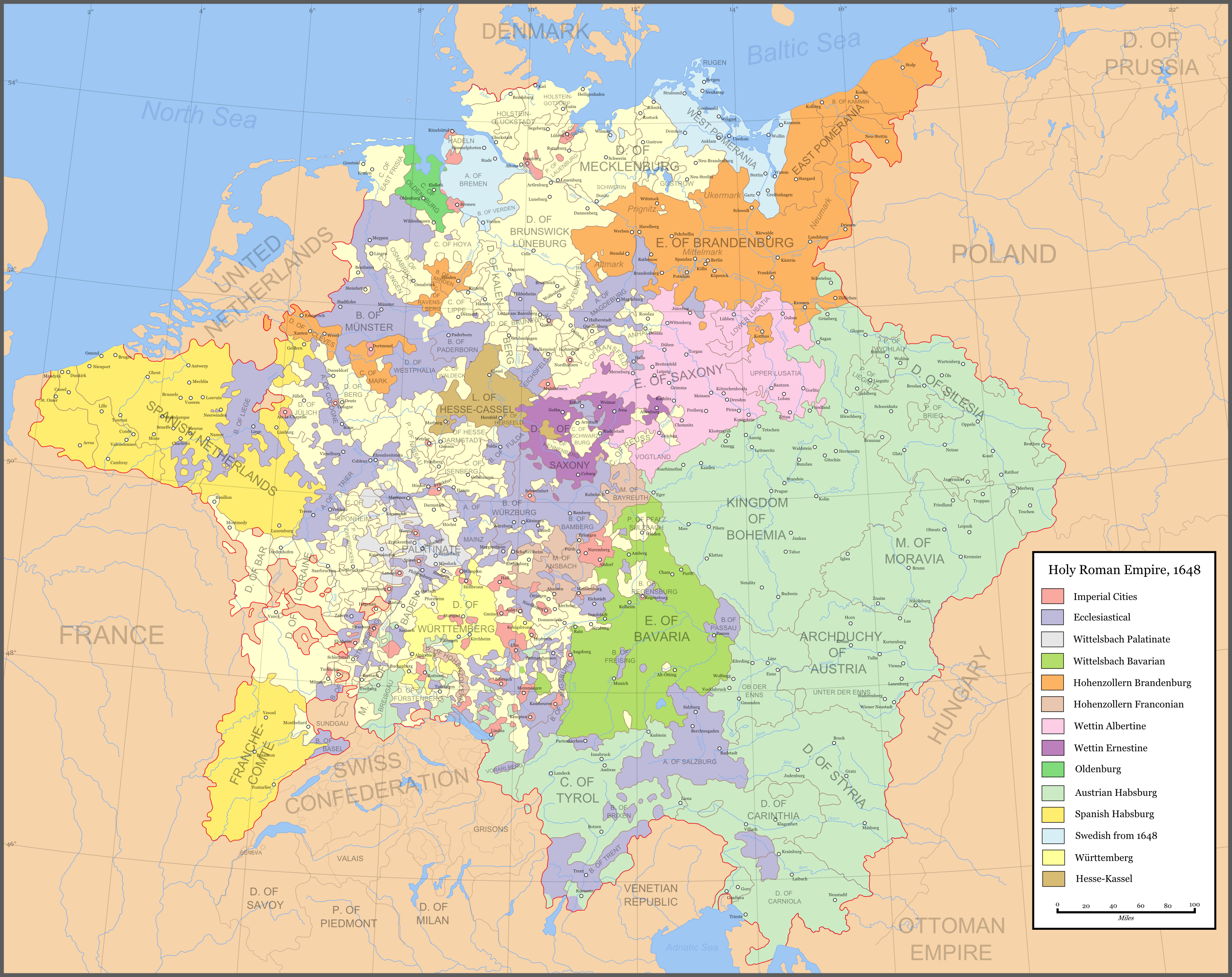 Map of the Holy Roman Empire in 1648, after the Peace of Westphalia. This is a png version of the original svg. Uses the colour scheme of Wikipedia:WikiProject Maps and the free to use Color Brewer. Imperial cities Ecclesiastical lands Wittelsbach Palatinate Wittelsbach Bavarian Hohenzollern Brandenburg Hohenzollern Franconia Wettin Albertine Wettin Ernestine Oldenburg Austrian Habsburg Spanish Habsburg Swedish after 1648 Württemberg Hesse-Kassel